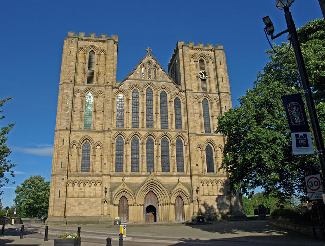 Ripon Cathedral A church has stood on this site since AD672. The Minster finally became a cathedral (the church where the Bishop has his cathedra or throne) in 1836.